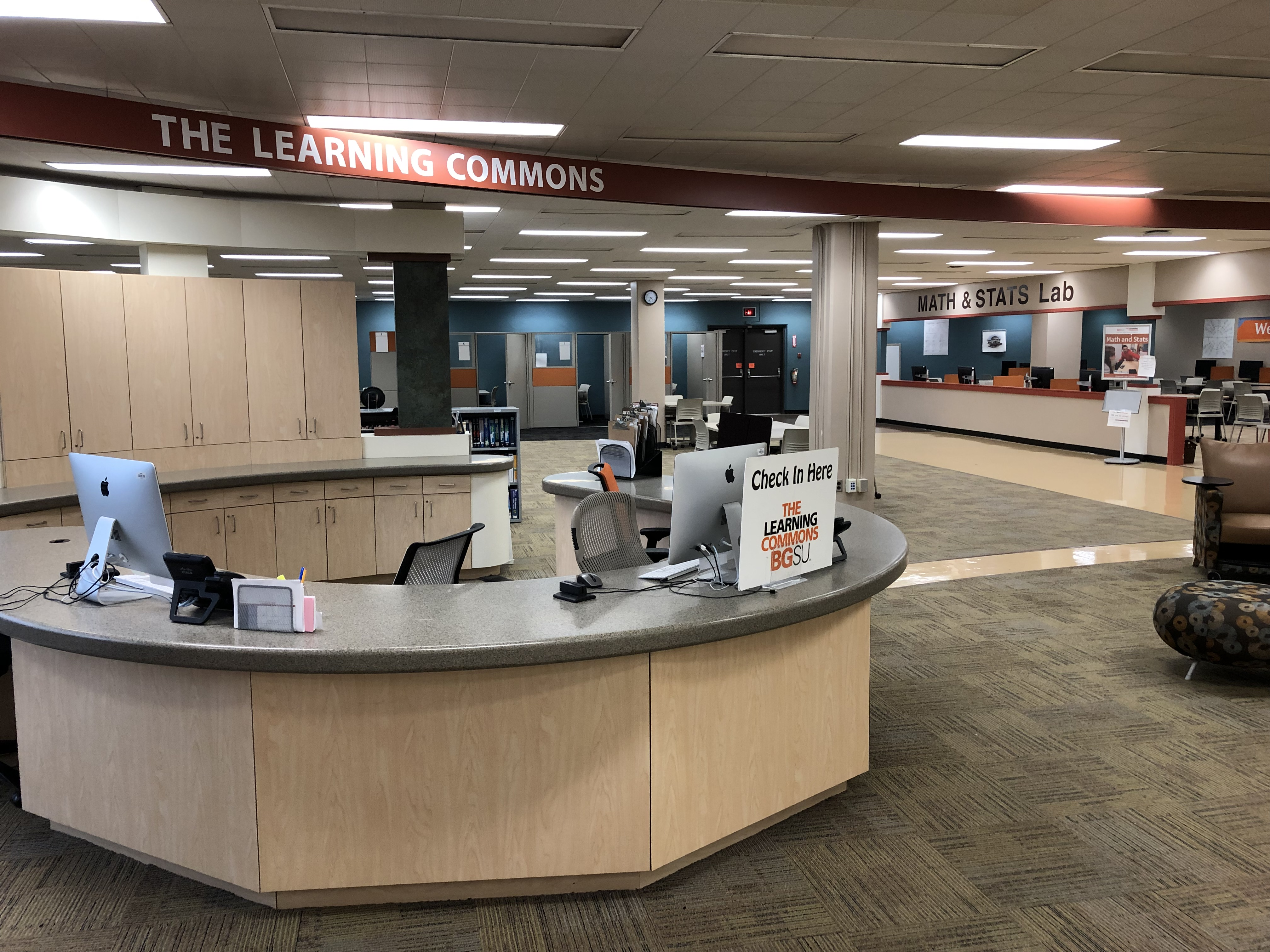 The Learning Commons at BGSU. The Math and Stats lab is visible in the back, but other subjects are taught off camera to the left.